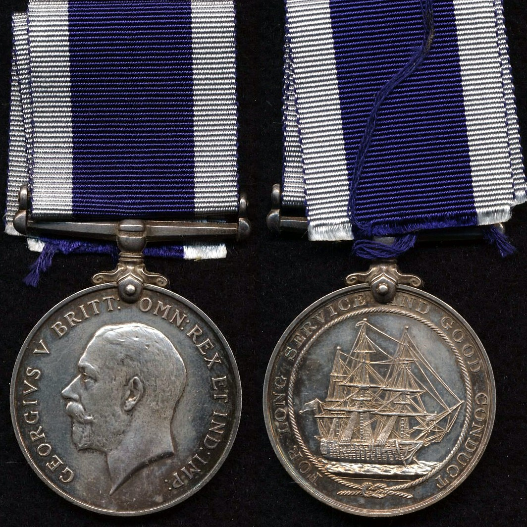 The second King George V version of the Naval Long Service and Good Conduct Medal (1848)